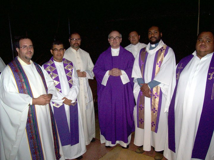 Padre Fortea, fr. Fortea